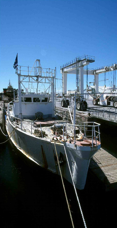 The Calypso in the Musée maritime de La Rochelle in August 2000.